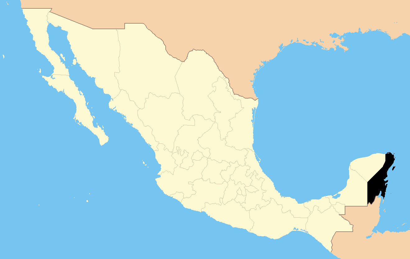 State of Quintana Roo in Mexico